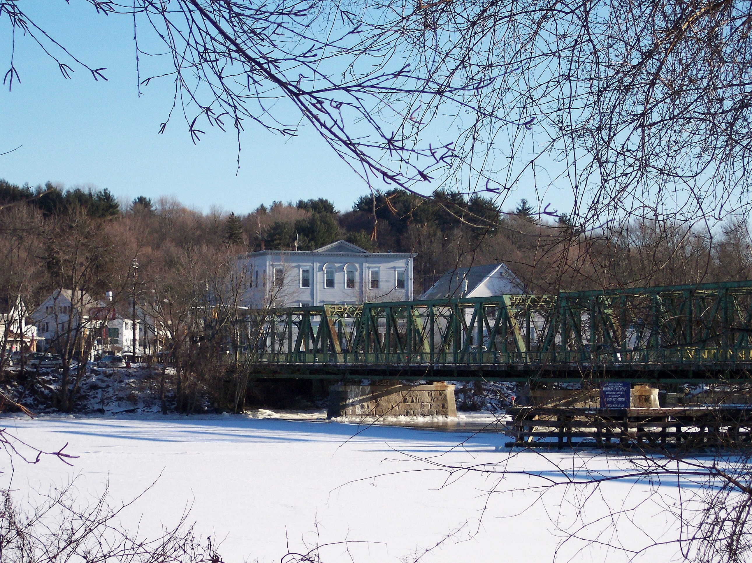 Photograph taken by Author, Richard B. Johmnson